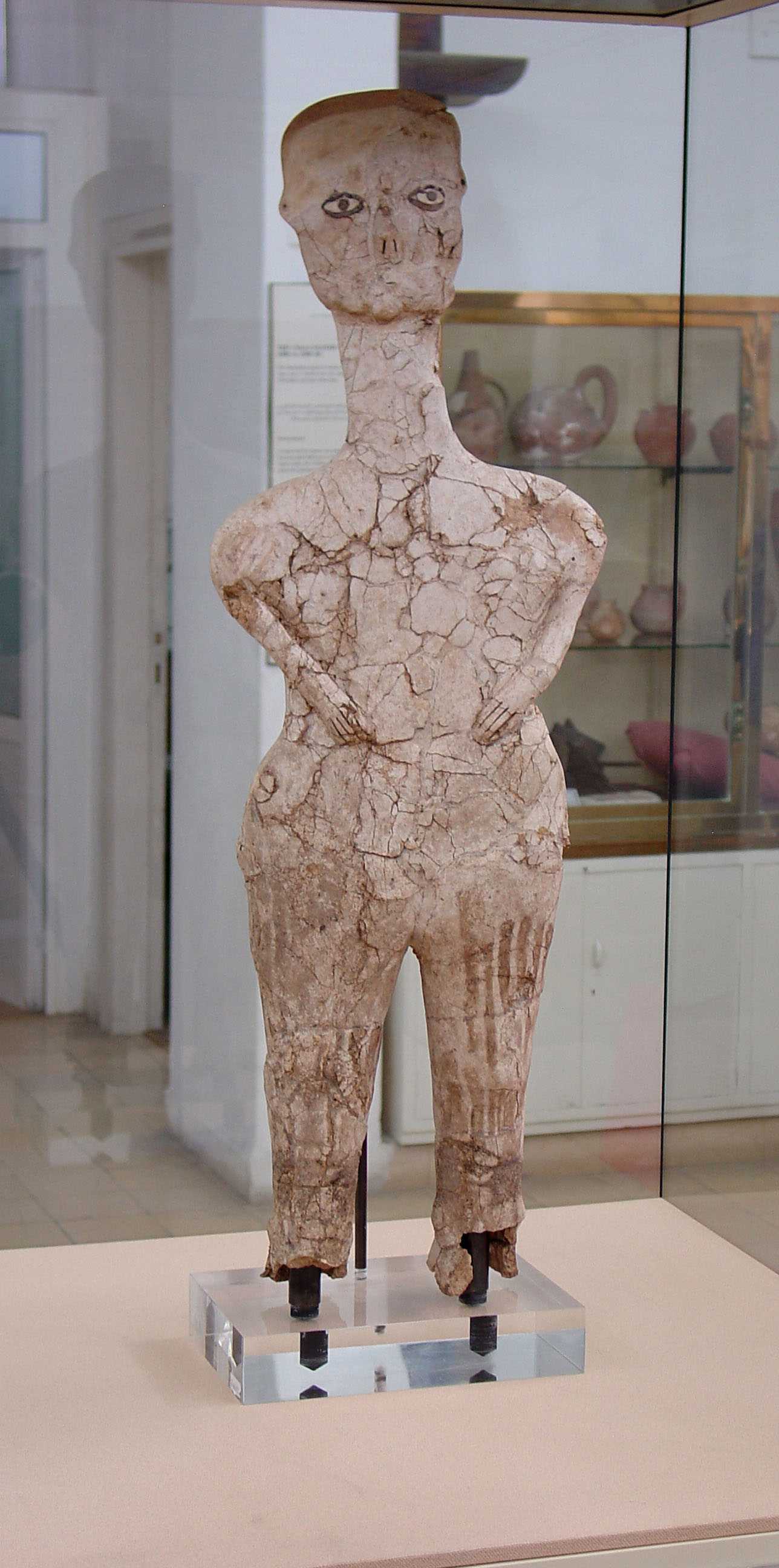 Found at 'Ain Ghazal. Later Pre-Pottery Neolithic B, 6700-6500 AD